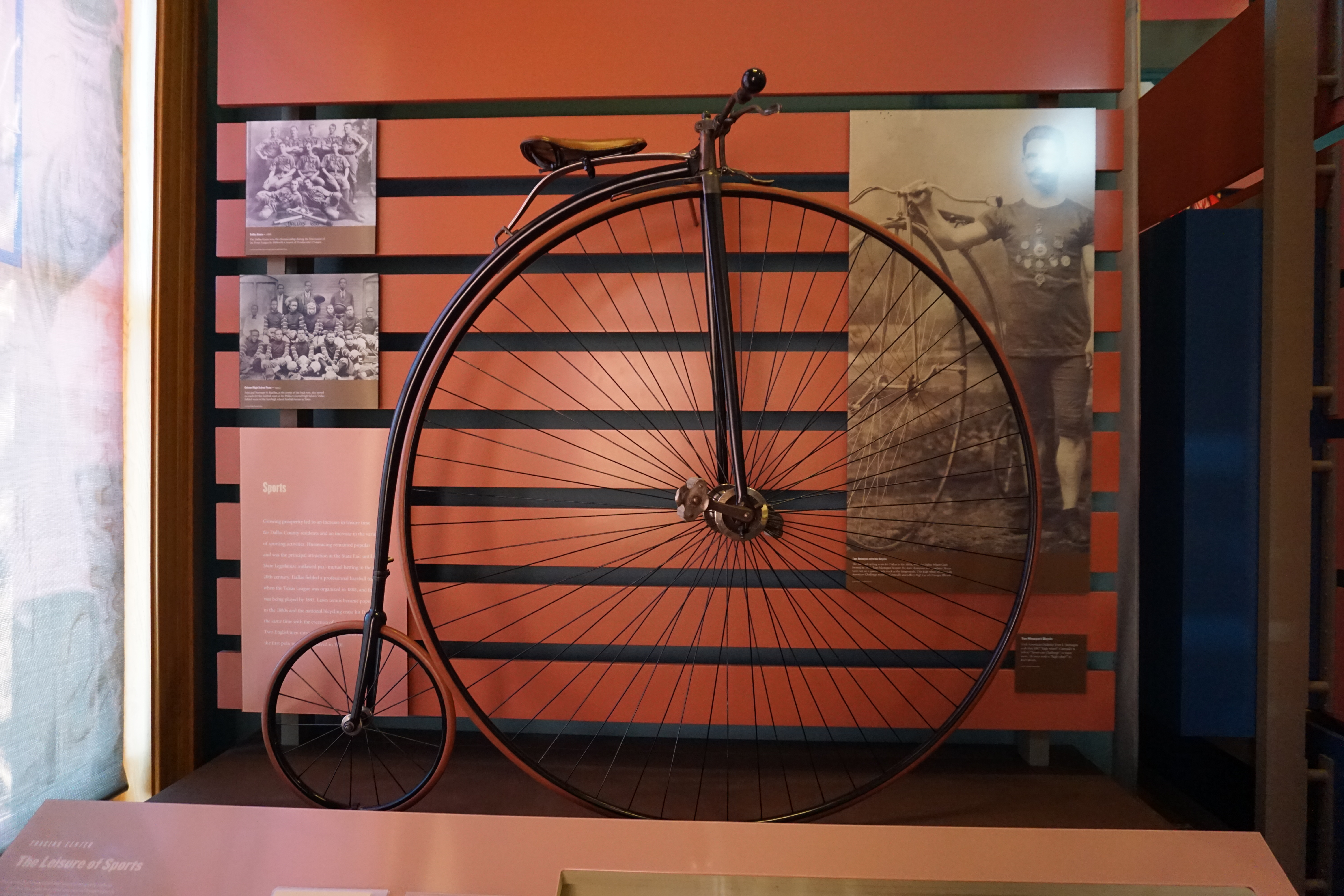 An 1887 Gormully & Jeffery American Challenge bicycle on display in the Trading Center Gallery at the Old Red Museum in Dallas, Texas (United States).